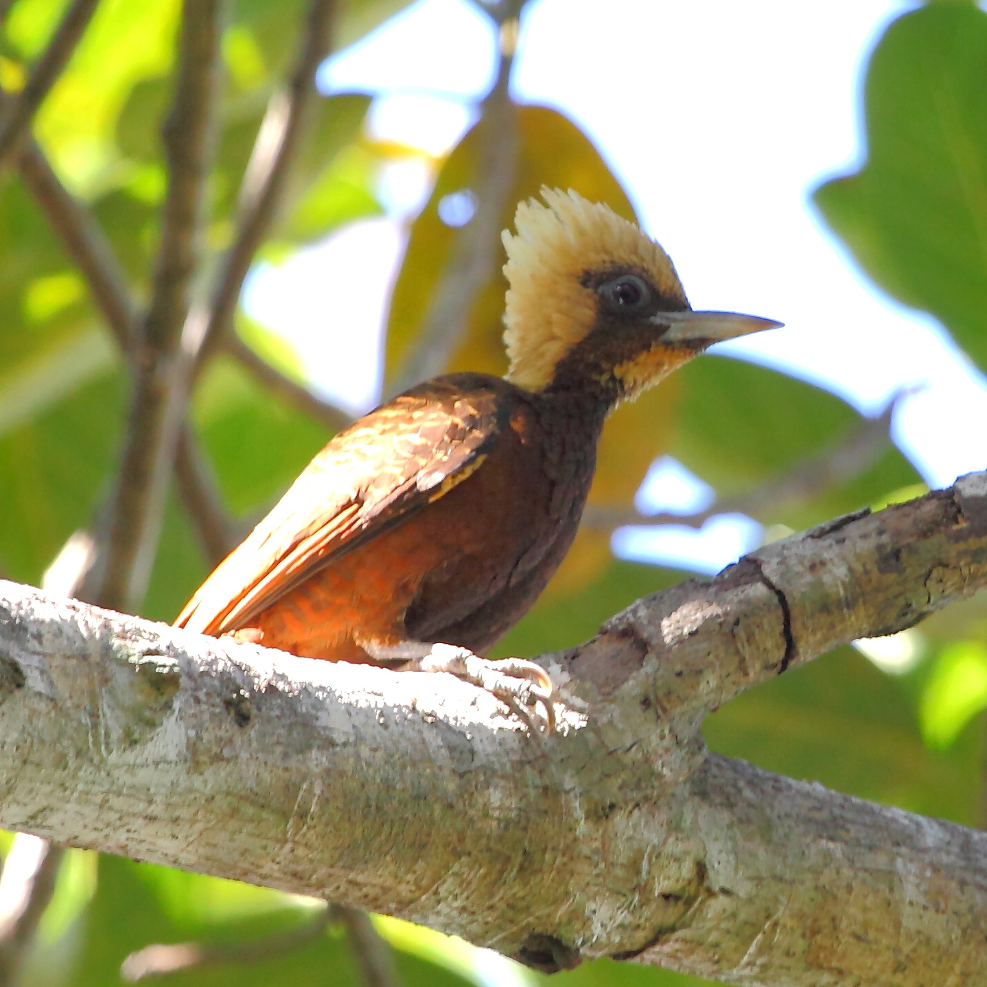 Pale-crested Woodpecker at Pantanal, Poconé - MT - Brazil